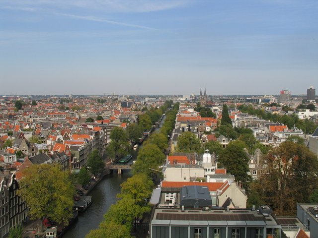 Panoramic (?) view of Amsterdam, taken from the Westerkerk church tower, facing north. On the foreground is the famous Anne Frank house, which is now a museum. Photograph taken by Stephane D'Alu in September 2003.